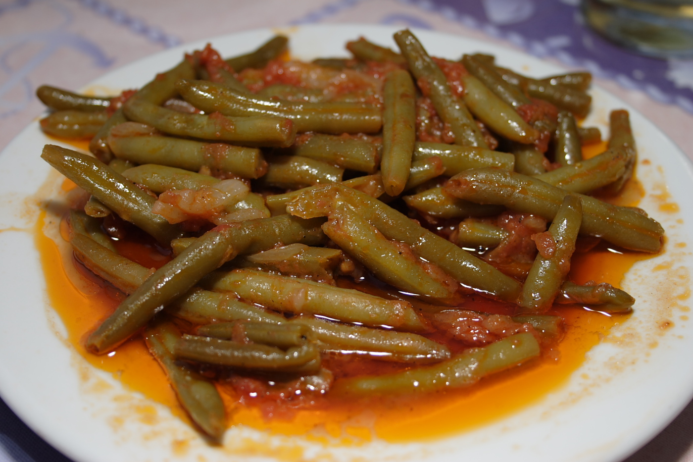 Fasolakia Prasina Ladera - green beans in tomato-oil-sauce.